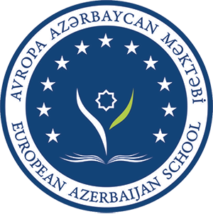 European Azerbaijan School Logo